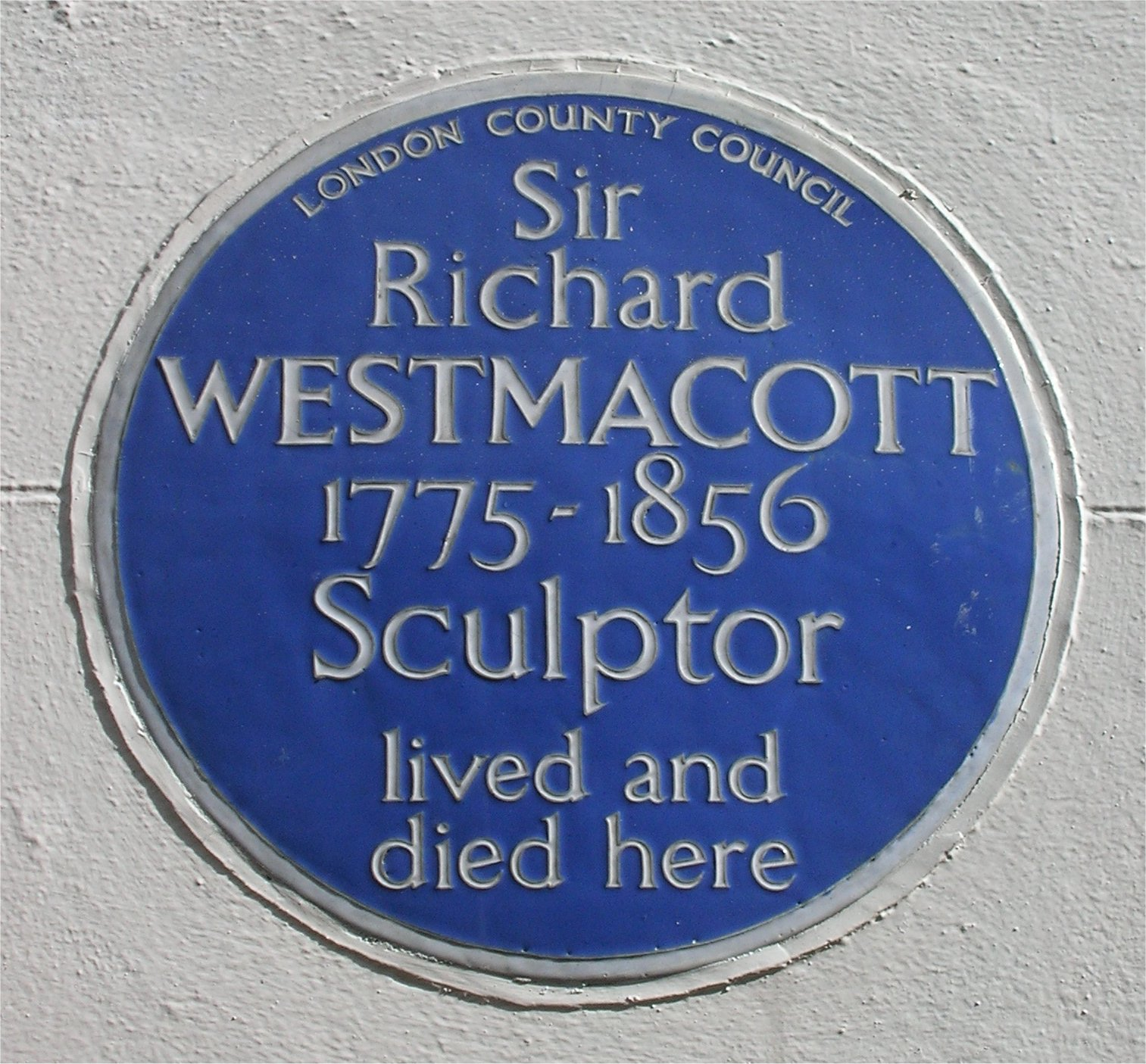 Blue plaque to Richard Westmacott, sculptor, on his house at 14 South Audley Street, London, England. Photographed by me 29 September 2006. Oosoom